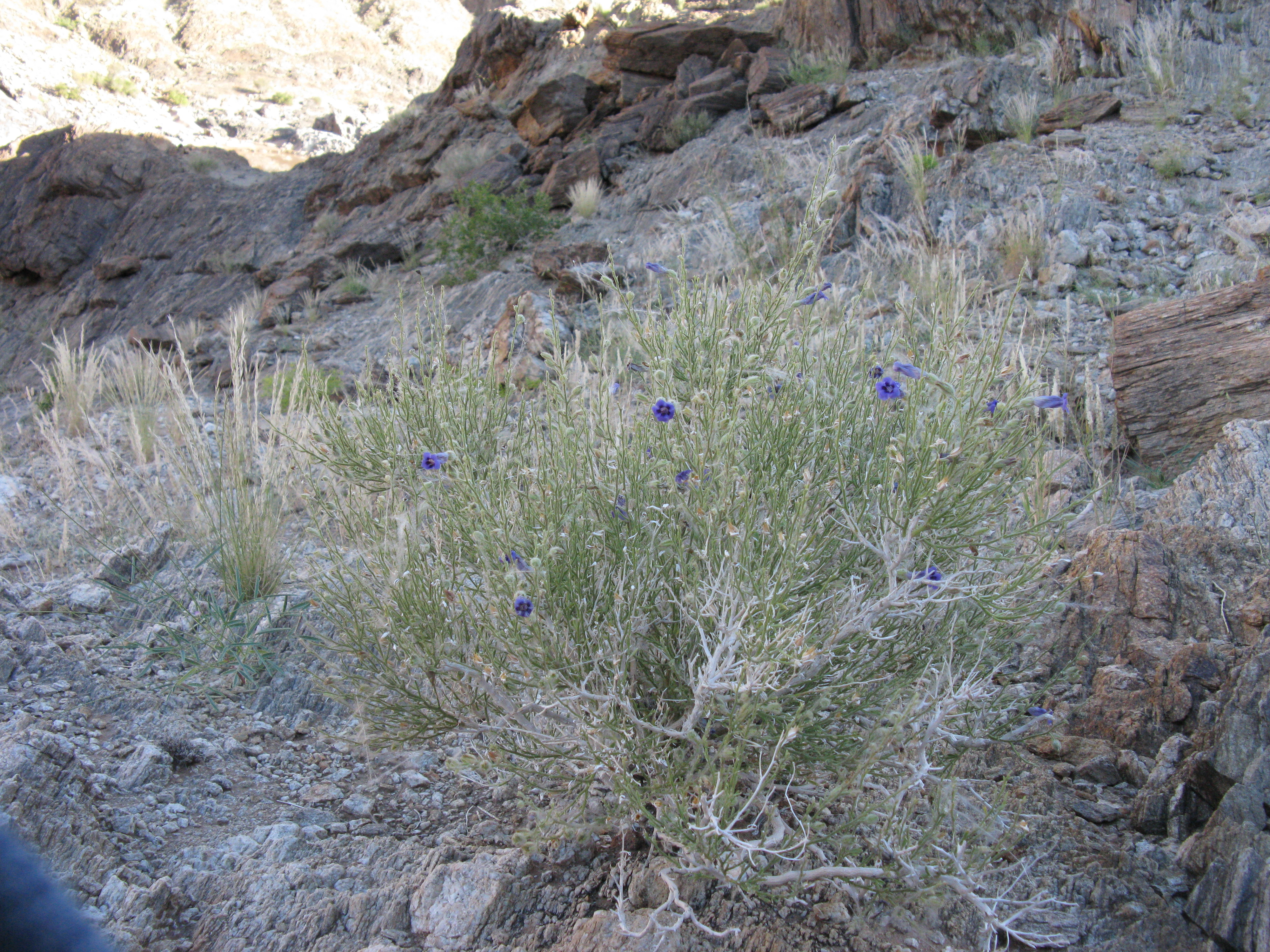 Anticharis scoparia (E.Mey. ex Benth.) Hiern ex Schinz